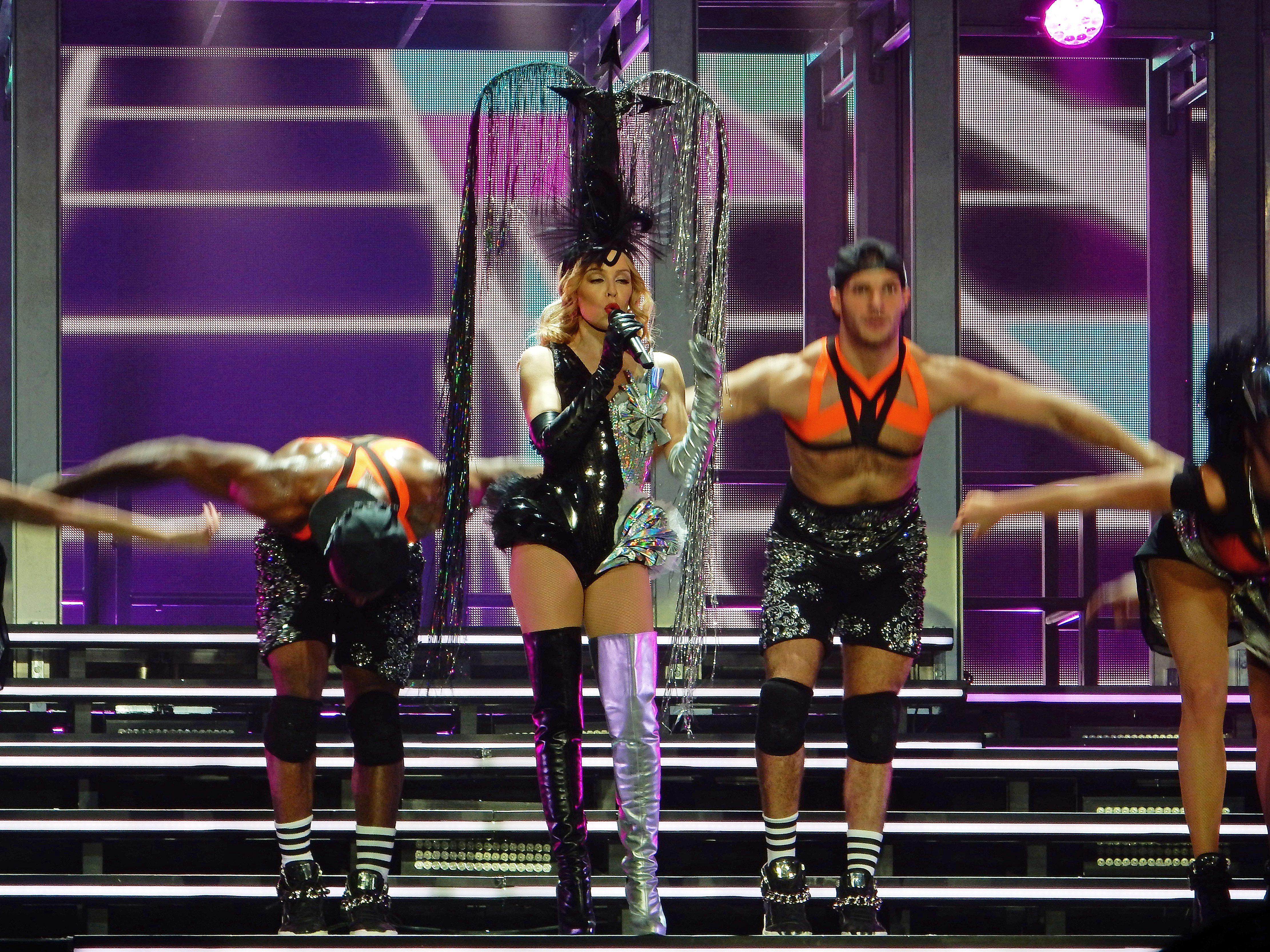 Kylie Minogue - Kiss Me Once Tour - Sheffield - 13.11.14. - 260